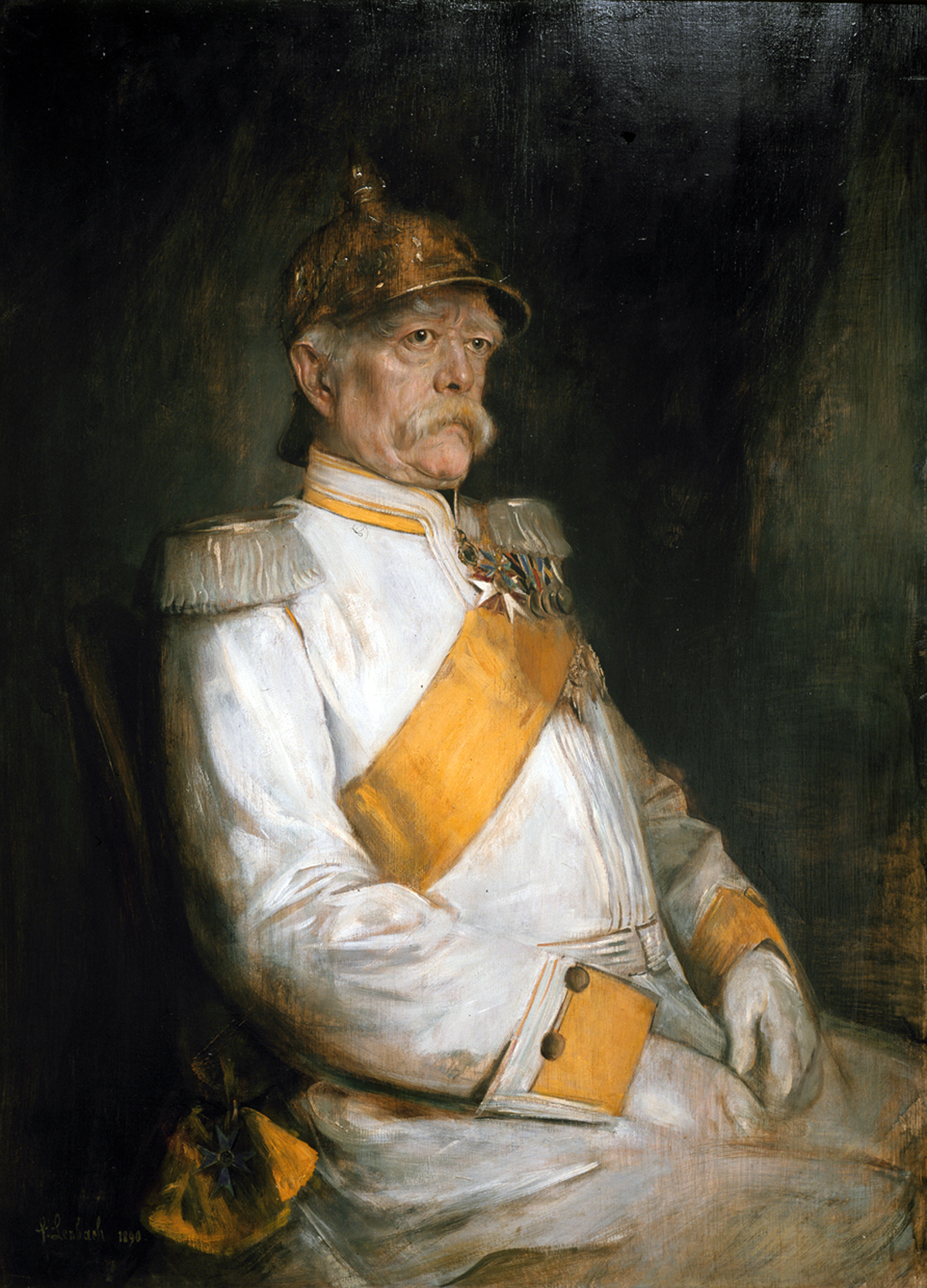 Otto von Bismarck, painted in his seventy-fifth year, is depicted seated, and turned slightly to his left. He wears the white uniform of the Magdeburg Cuirassiers' Regiment no. 7. Displayed across his breast is the yellow ribbon of the Order of the Black Eagle; the cross of that order is visible at his right hip. Pinned across his left side are a number of indecipherable medals. His gloved hands are held loosely in his lap. The cuirassier's helmet has been pushed upward to reveal the Chancellor's face with its distinctive bushy brows and mustache. Early accounts indicate that this portrait was based on studies made from life in the winter of 1889-90. One of over eighty portraits of Bismarck, this picture is almost identical to a portrait in the Städtische Galerie im Lenbachhaus, Munich. The latter, measuring 119 x 96 cm, is signed and dated "F. Lenbach/Friedrichruh 1890."